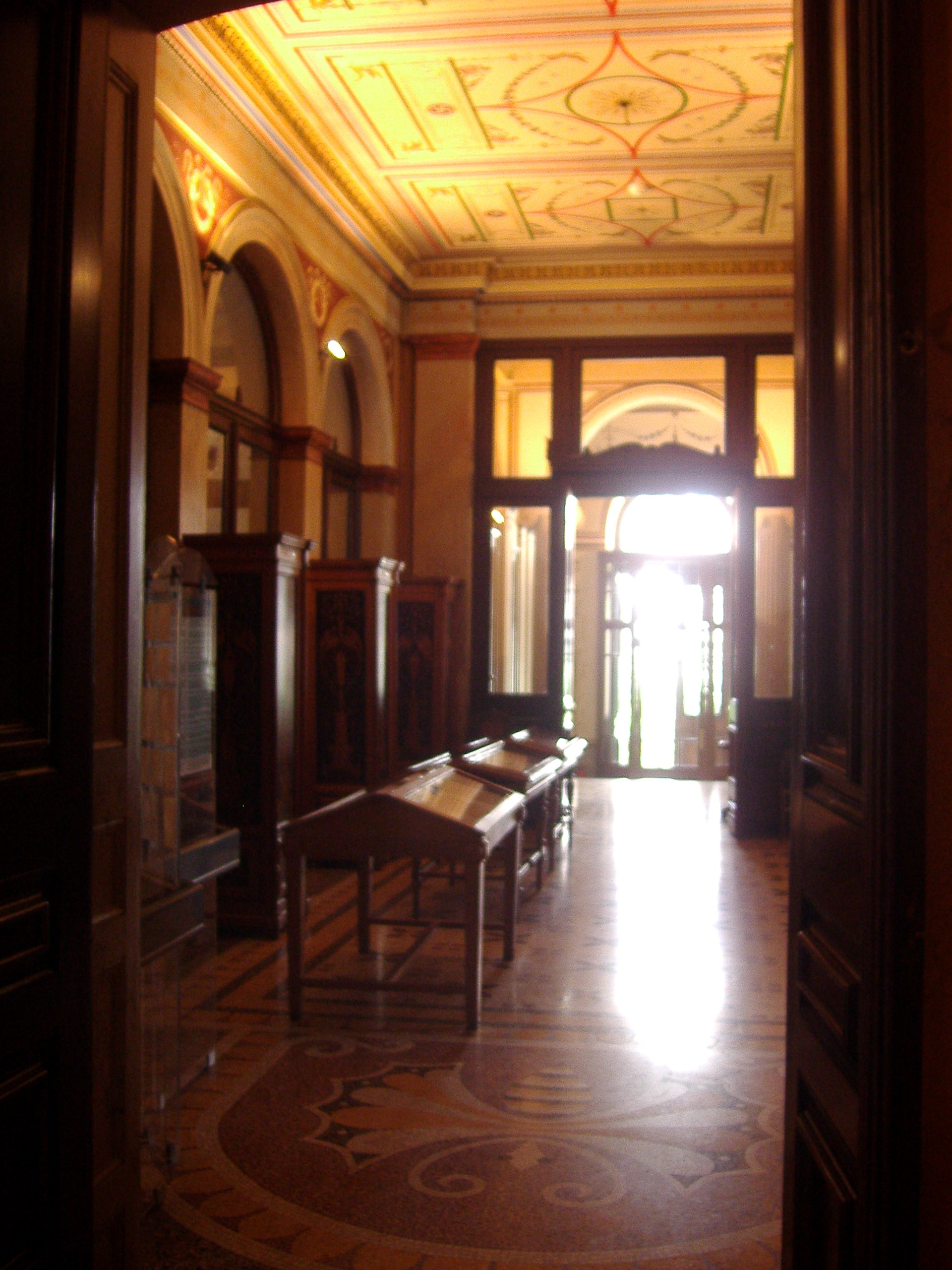 Interior of the Numismatic Museum of Athens